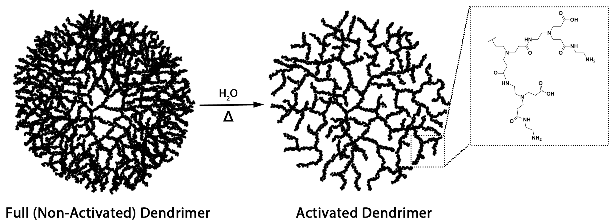 Graphical depiction of the changes in overall molecular structure of the PAMAM dendrimer when it is subjected to hydrolysis.